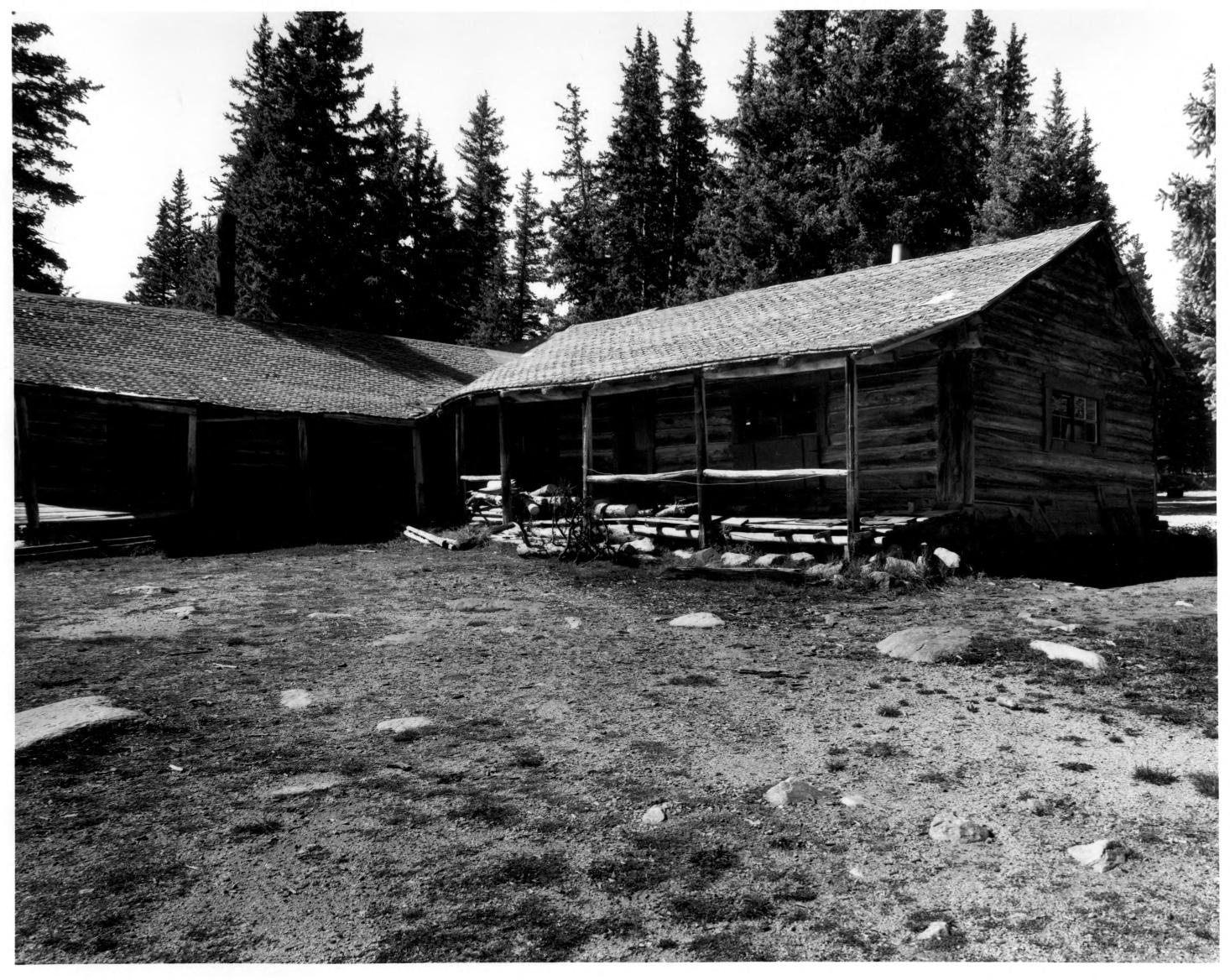 Brooklyn Lake Lodge, Albany County, Wyoming Approximately 6 miles north of Centennial. View of south and east elevations.